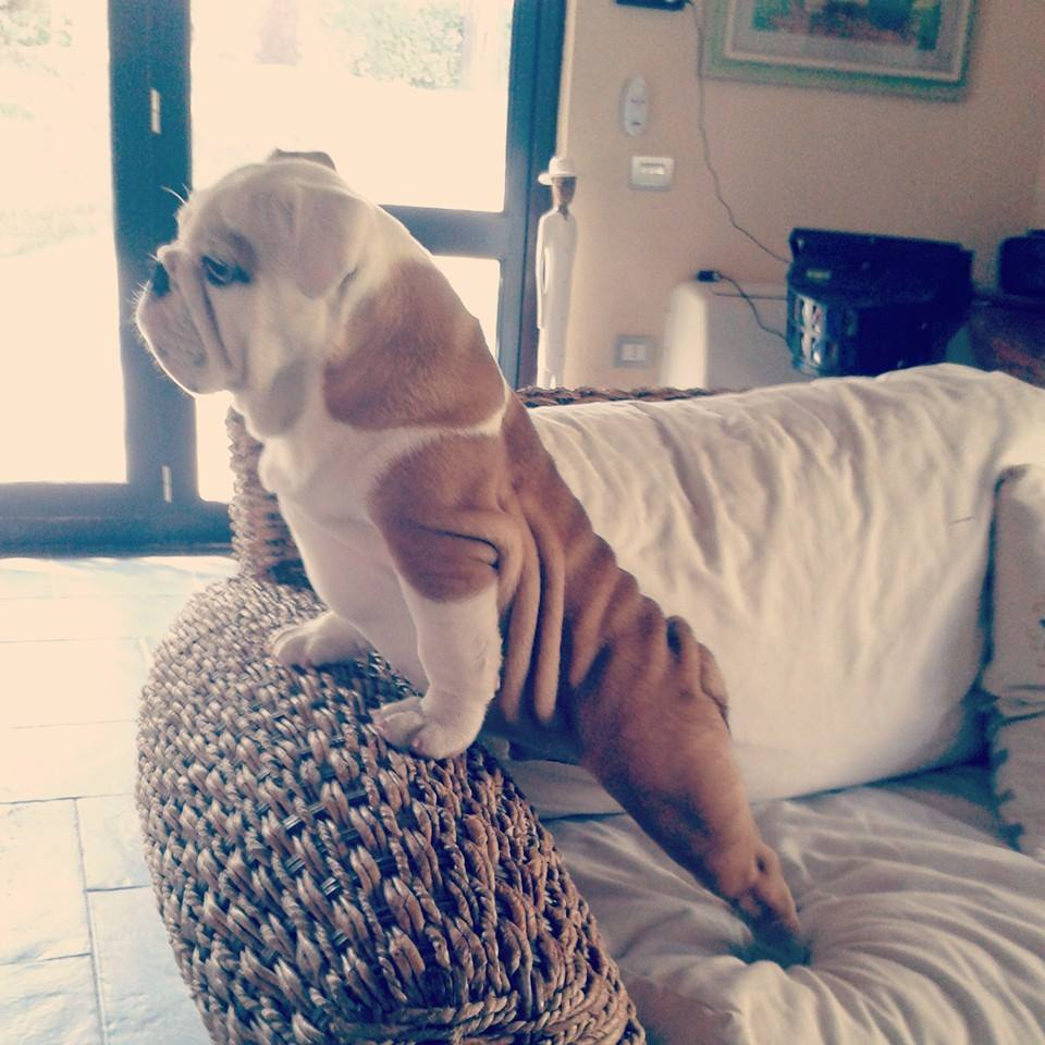 Cucciolo Bulldog